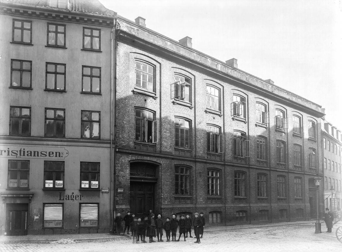 Suhmsgade Skole to the right and Hauser Plads to the left in Copenhagen, Denmark